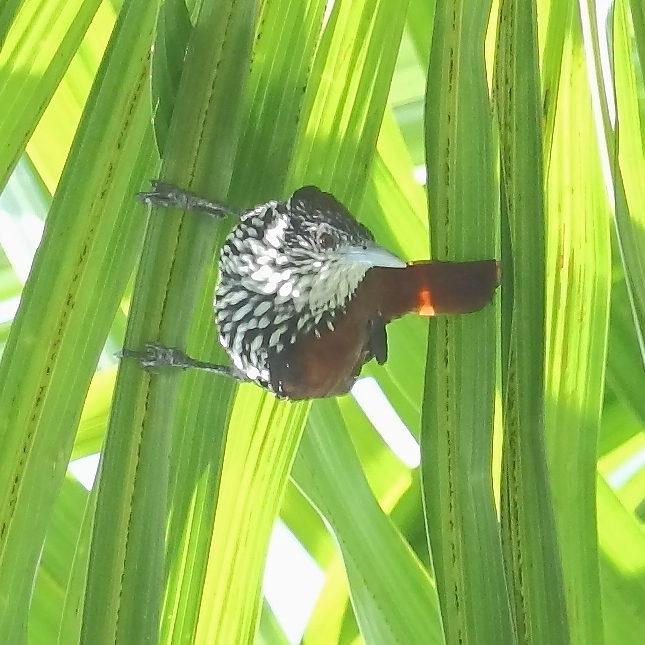 Point-tailed Palmcreeper at Apiacás - MT - Brazil